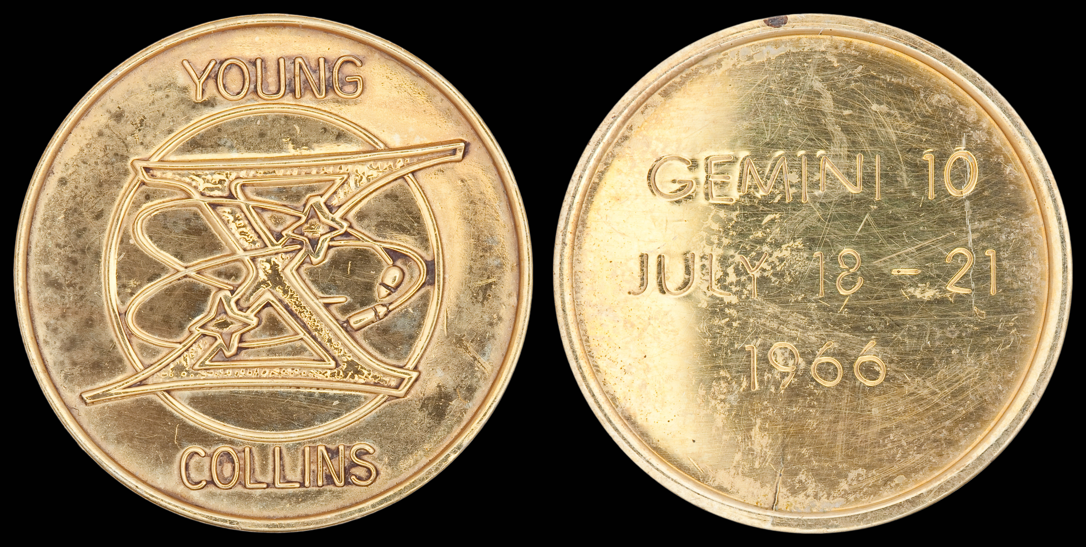 Gemini 10 Flown Fliteline Gold-Colored Medallion(6052-41042)